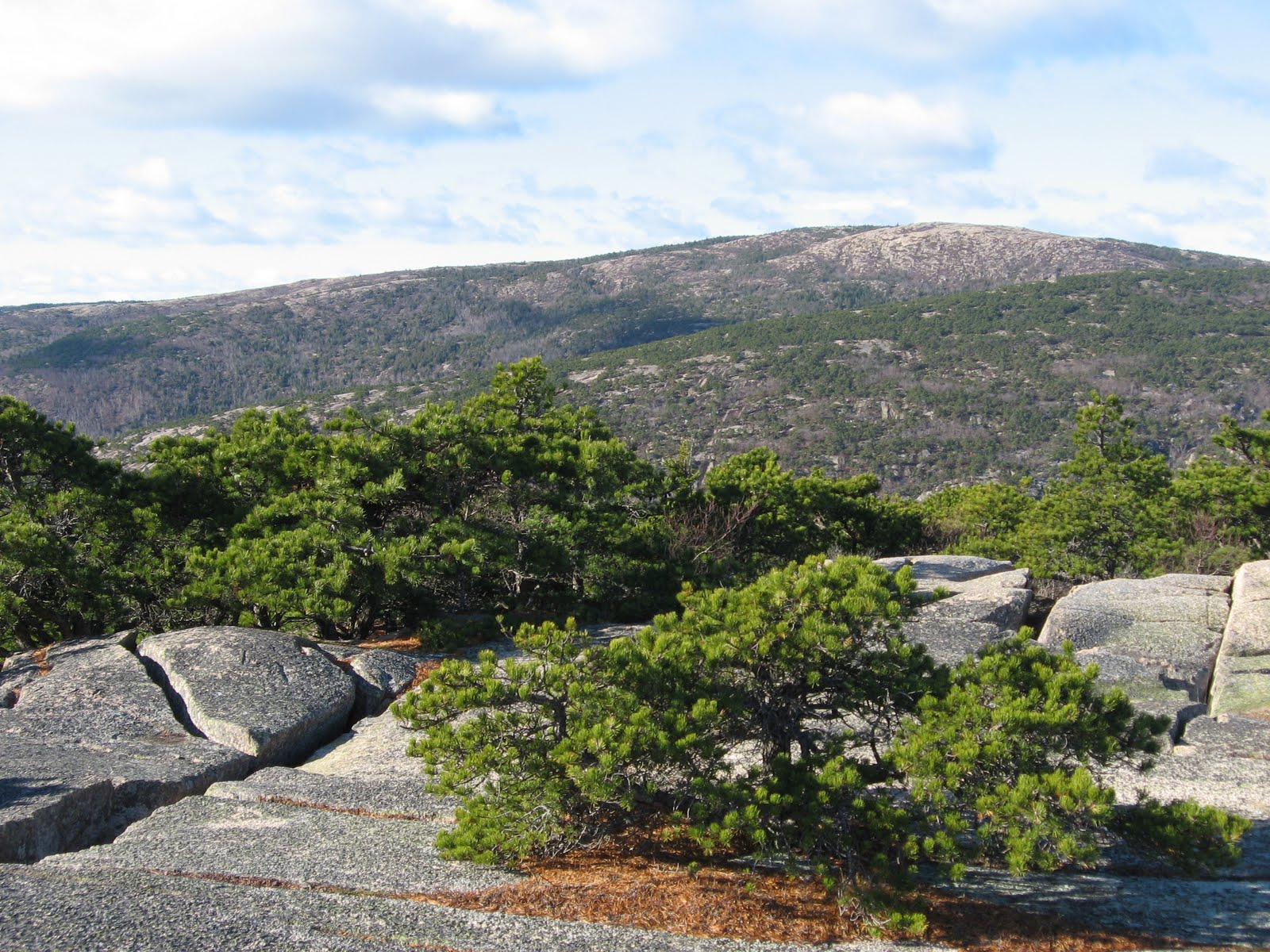 Cadillac Mountain viewed from Champlain Mountain in Acadia National Park, Maine